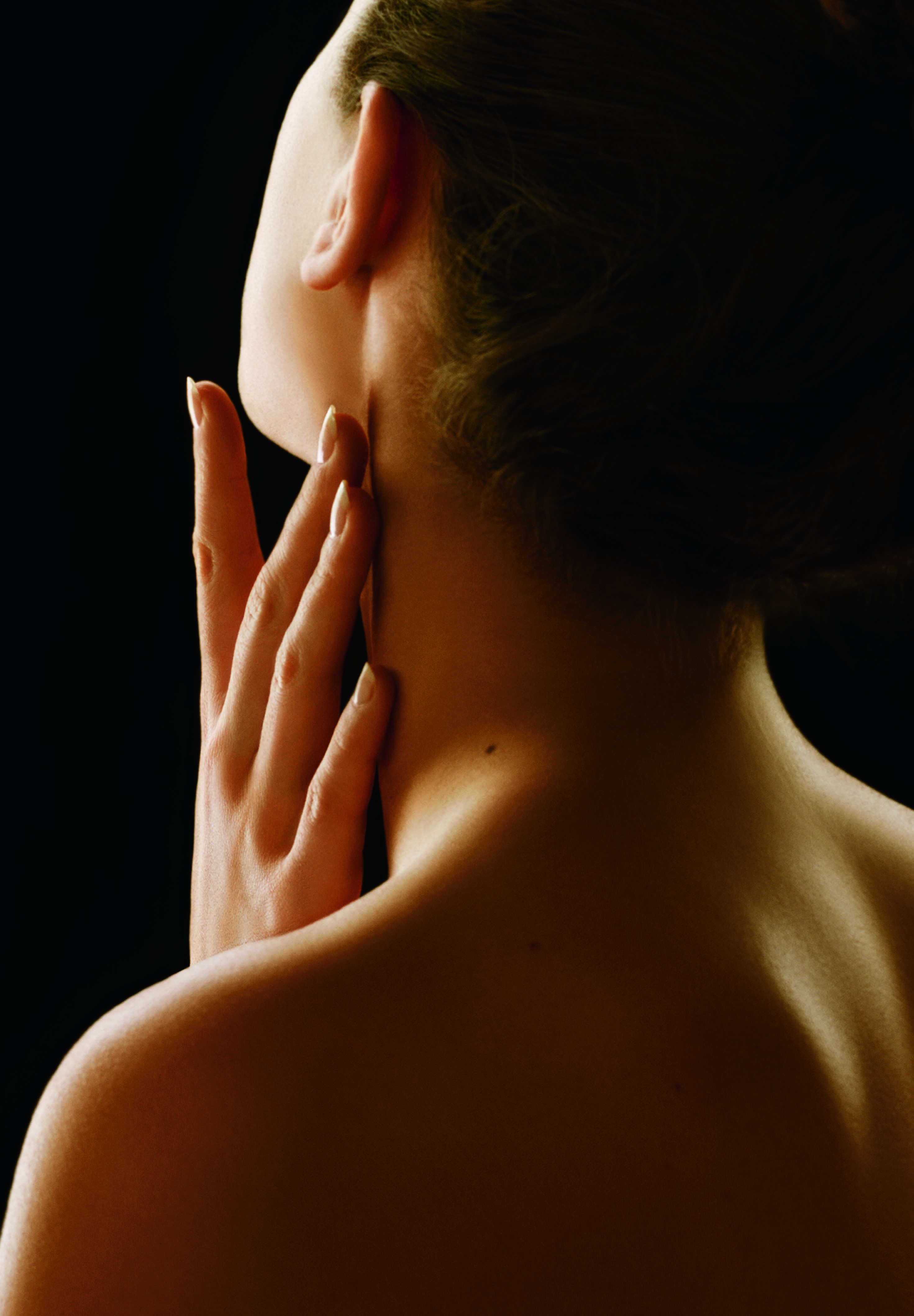 Model for Laggridore